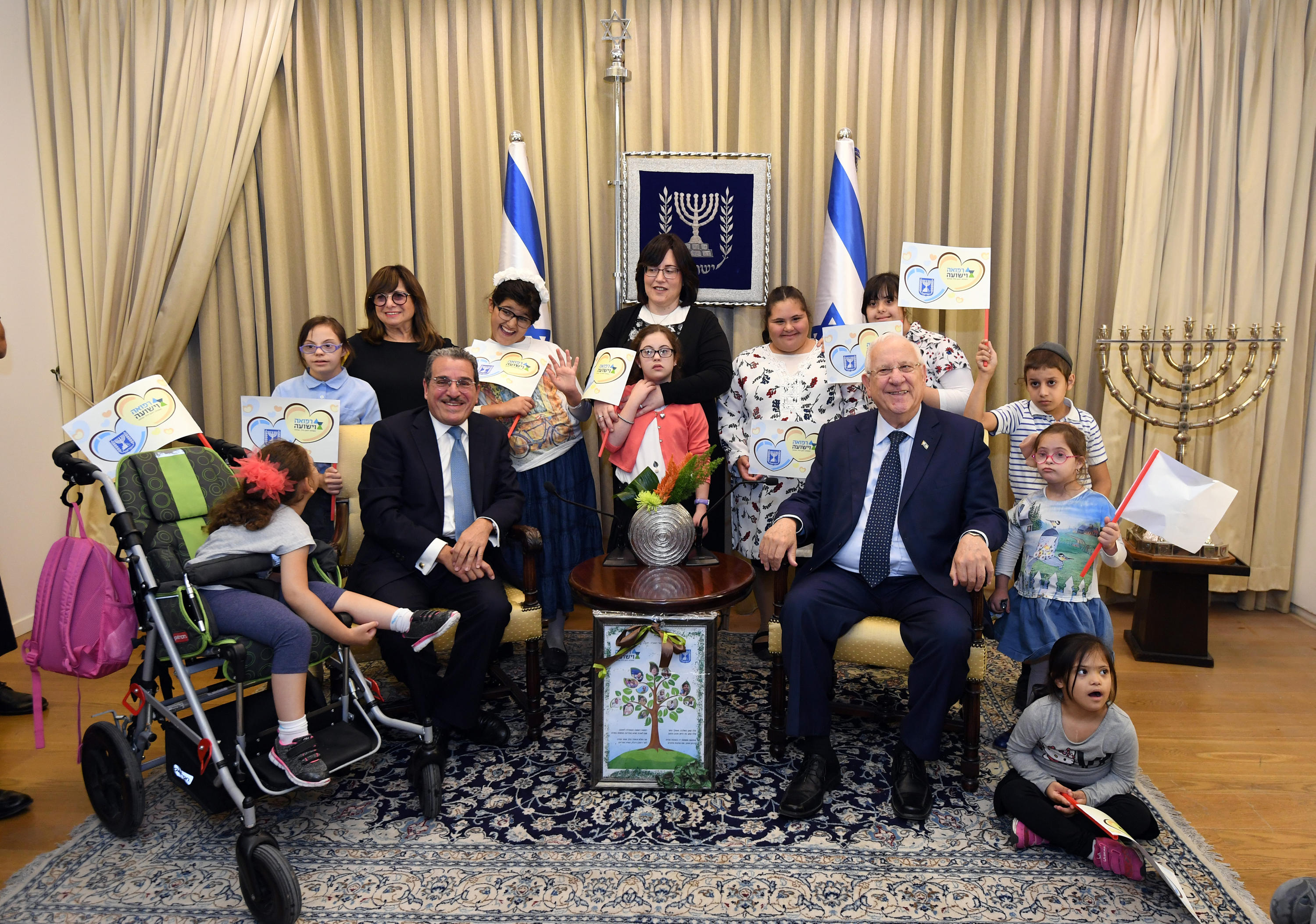 President Reuven Rivlin hosts a group of medical and salvation children, volunteers and representatives of the organization, at the President's Residence. Tuesday, October 3, 2017. Photo credit: Haim Tzach / GPO.